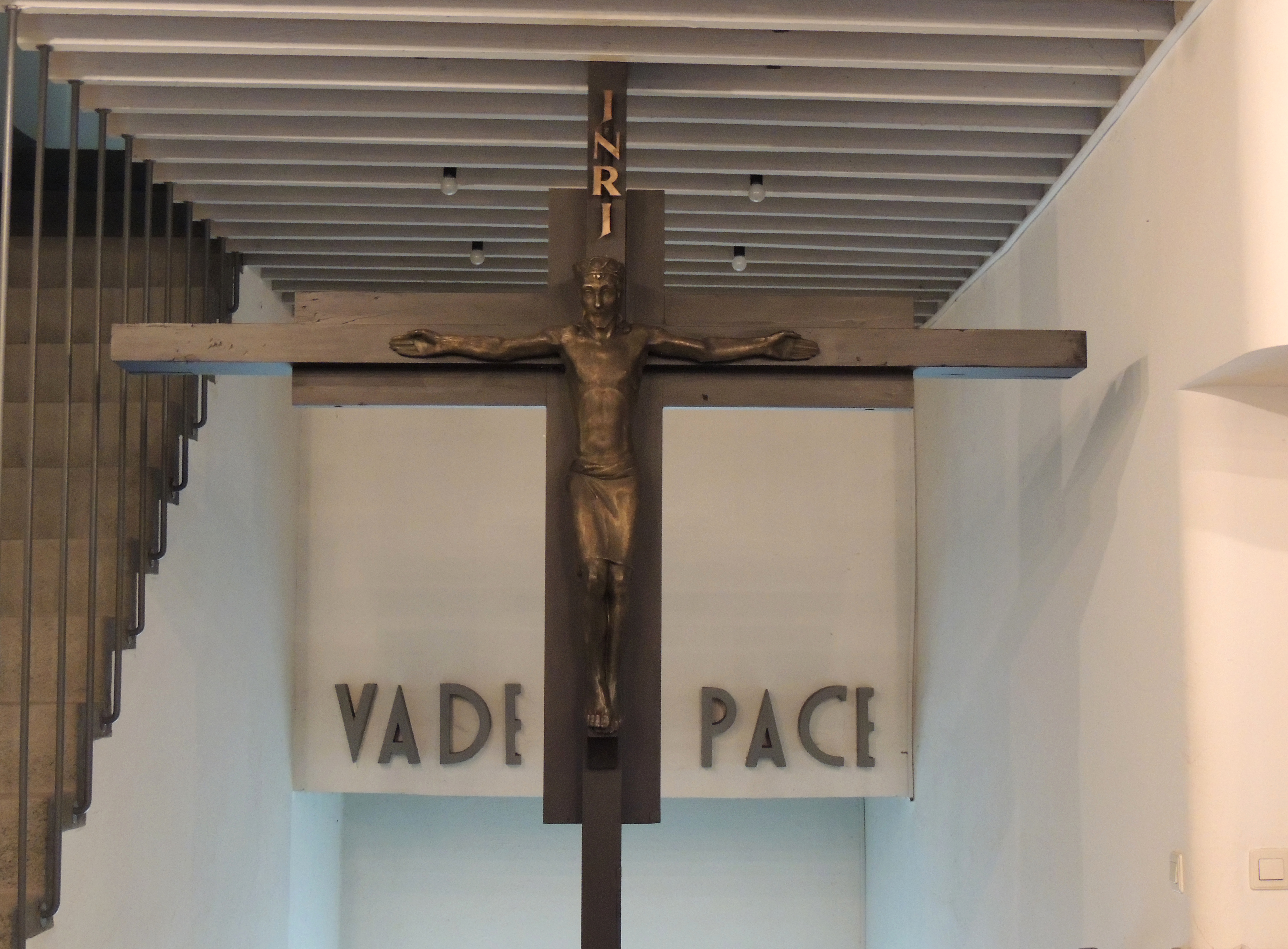 Origin altar cross in the Heilig-Geist-Kirche in Frankfurt am Main-Riederwald